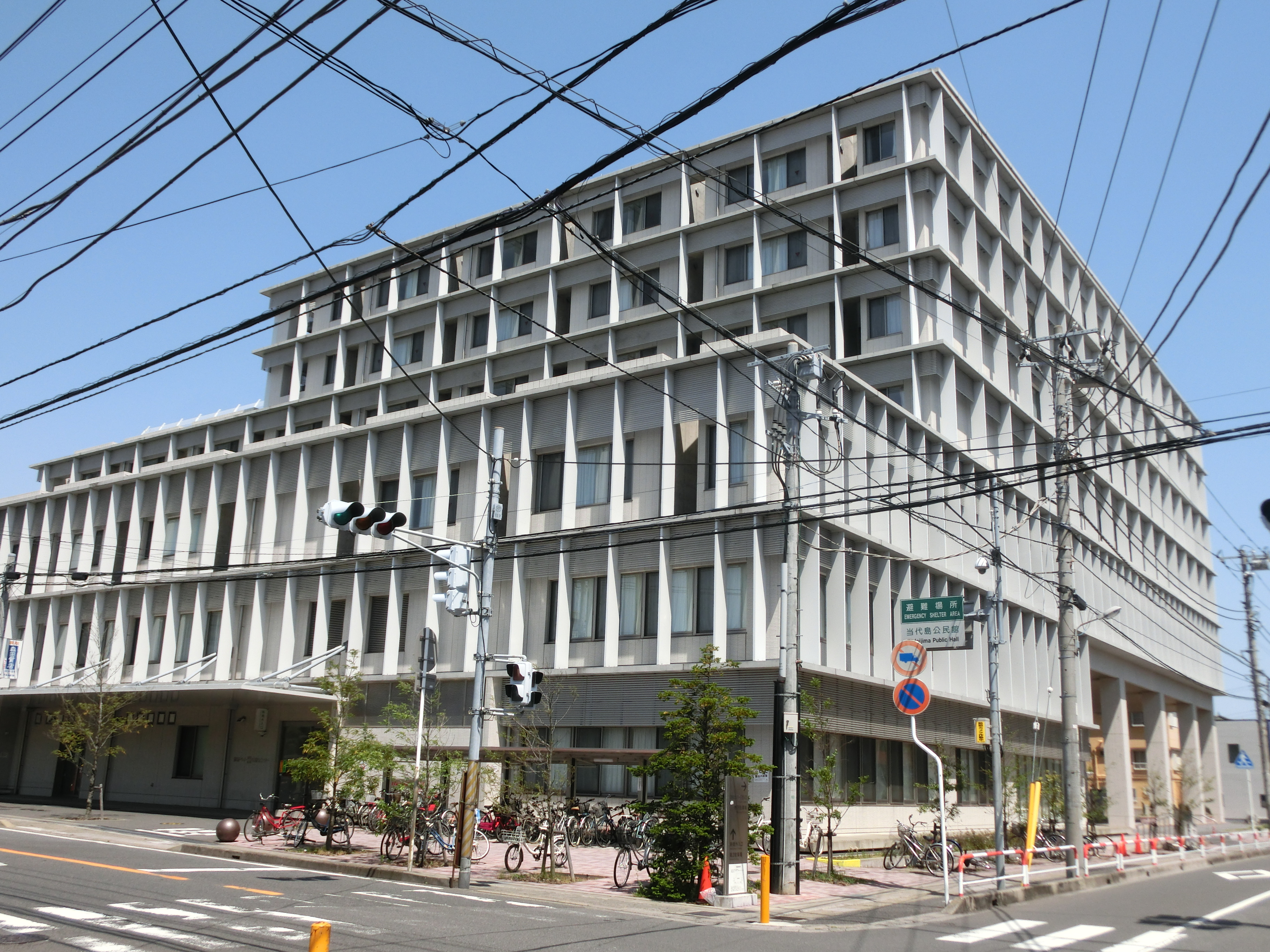 Tokyo Bay Urayasu-Ichikawa Medical Center